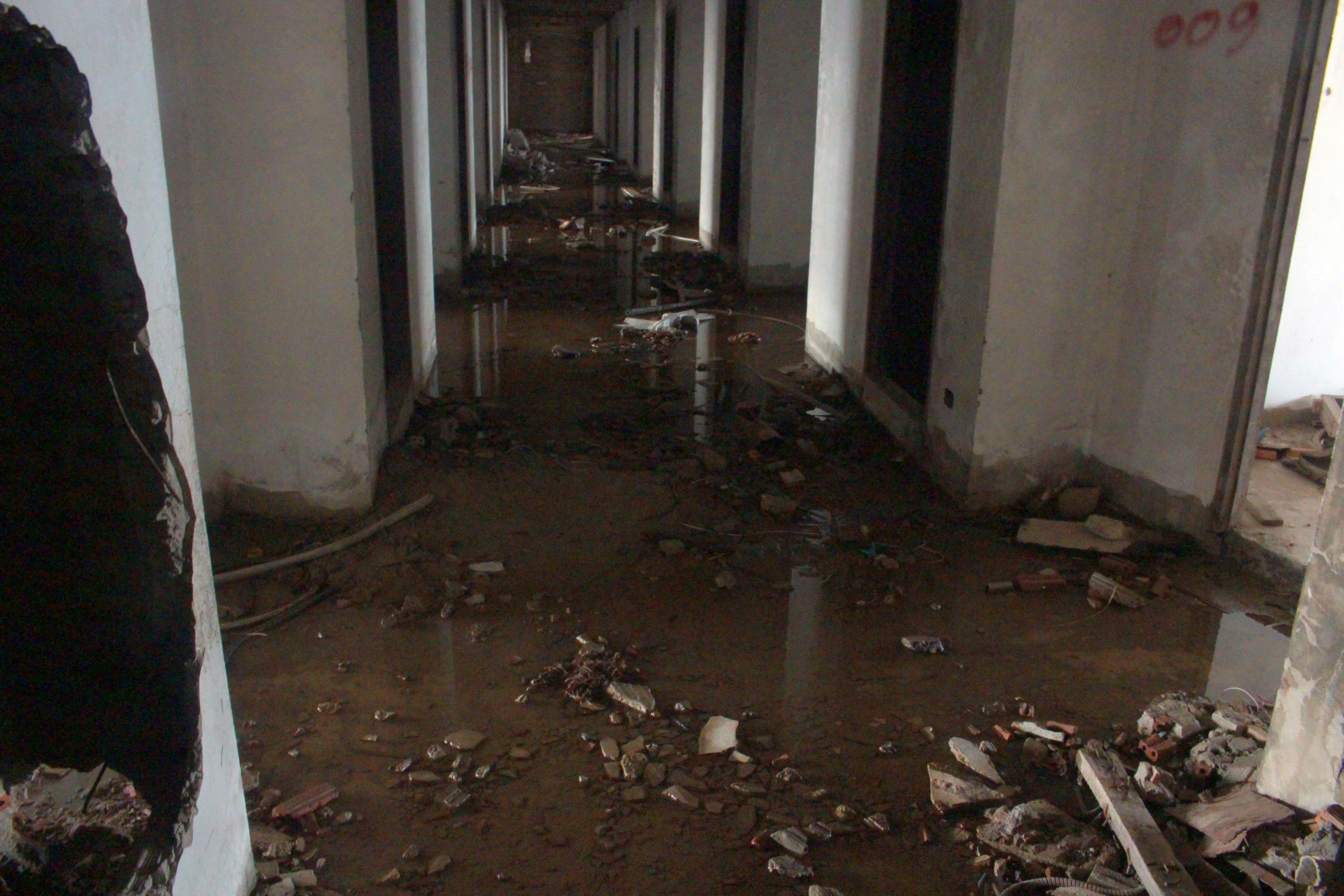 Inside of the Sathorn Unique Tower/Ghost Tower, Bangkong, Thailand; graffiti Alexi.